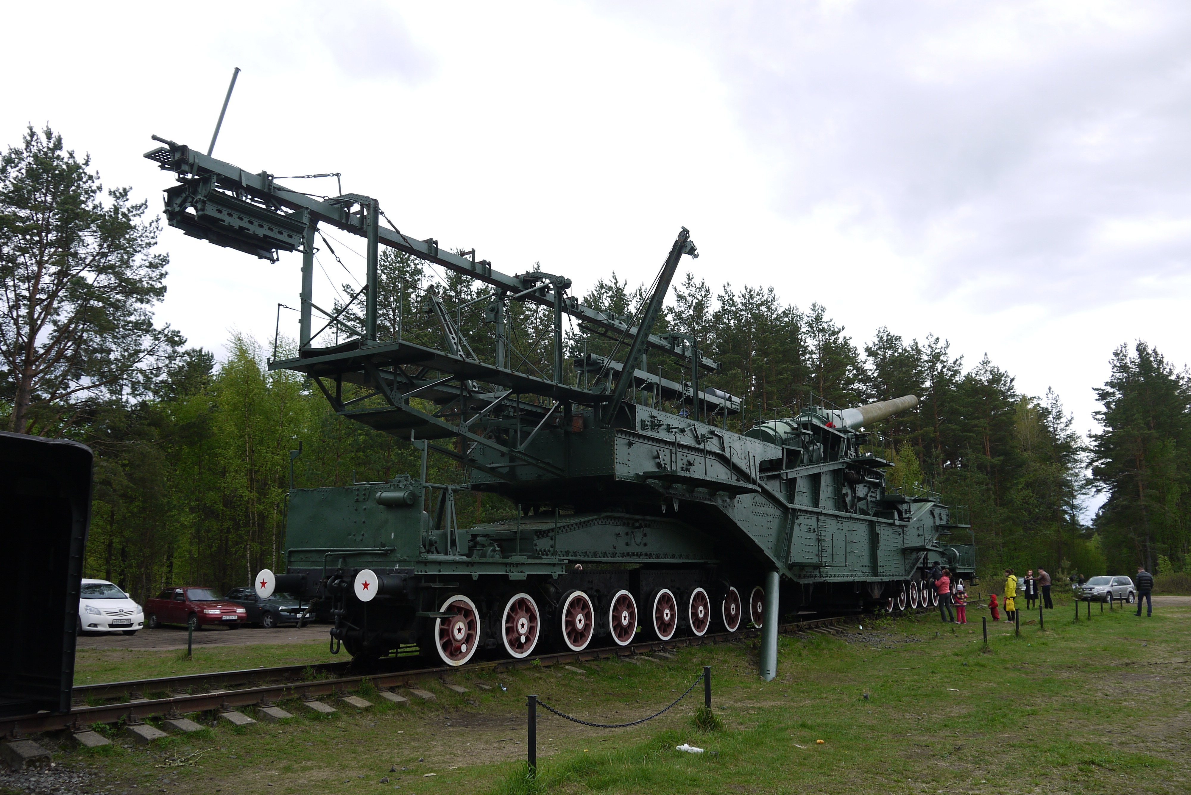 TM-3-12, Krasnaya Gorka fort, Lebyazhye, Leningrad Oblast, Russian Federation